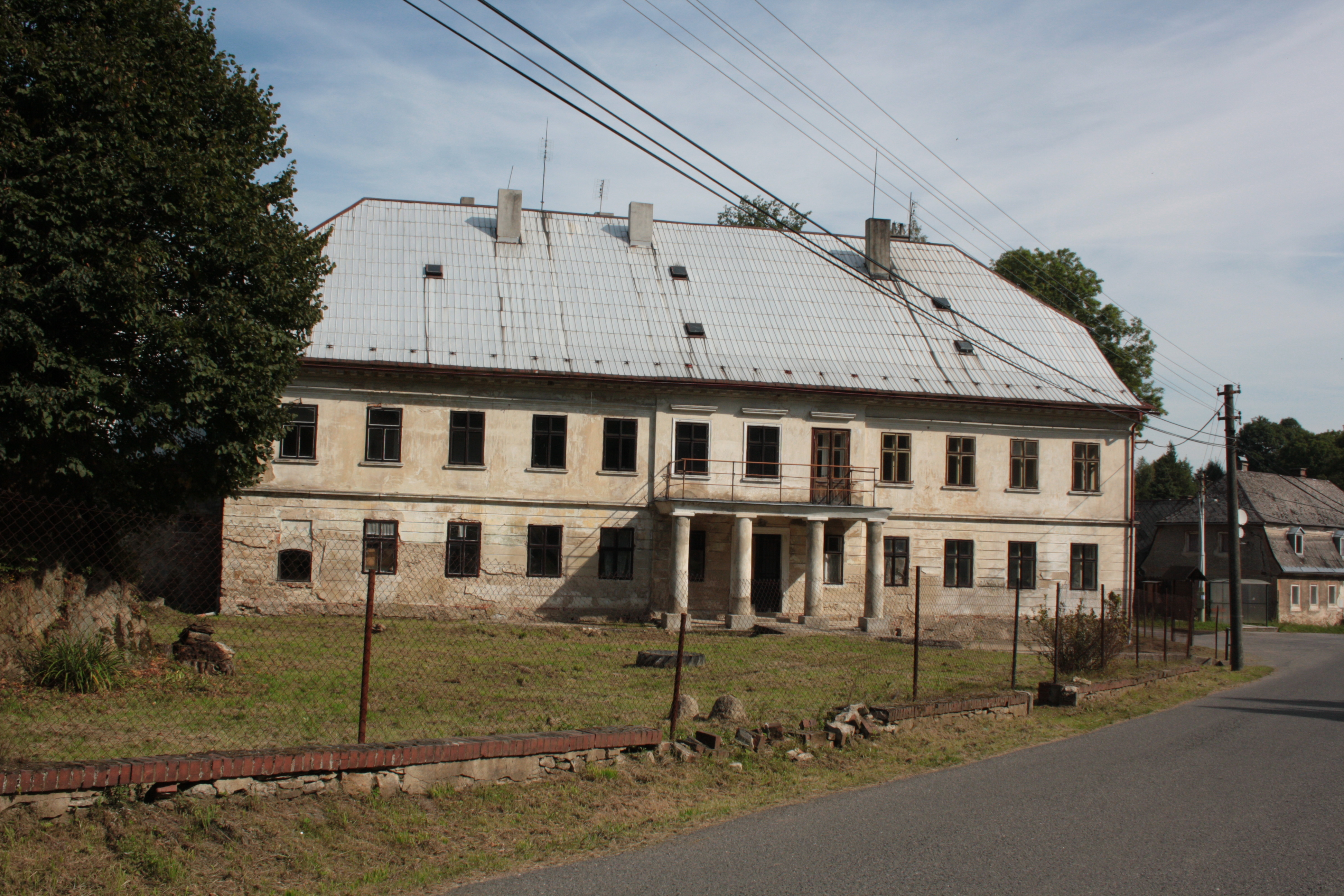 This photograph was taken with a DSLR from WMCZ's Camera grant.